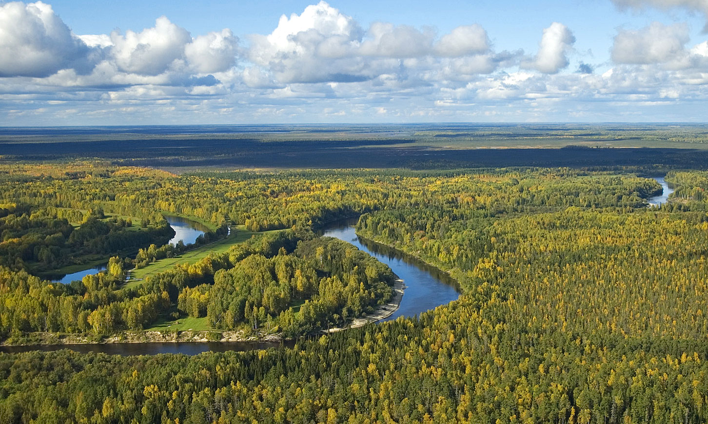 Vasyugan River, Tomsk oblast, Siberia.